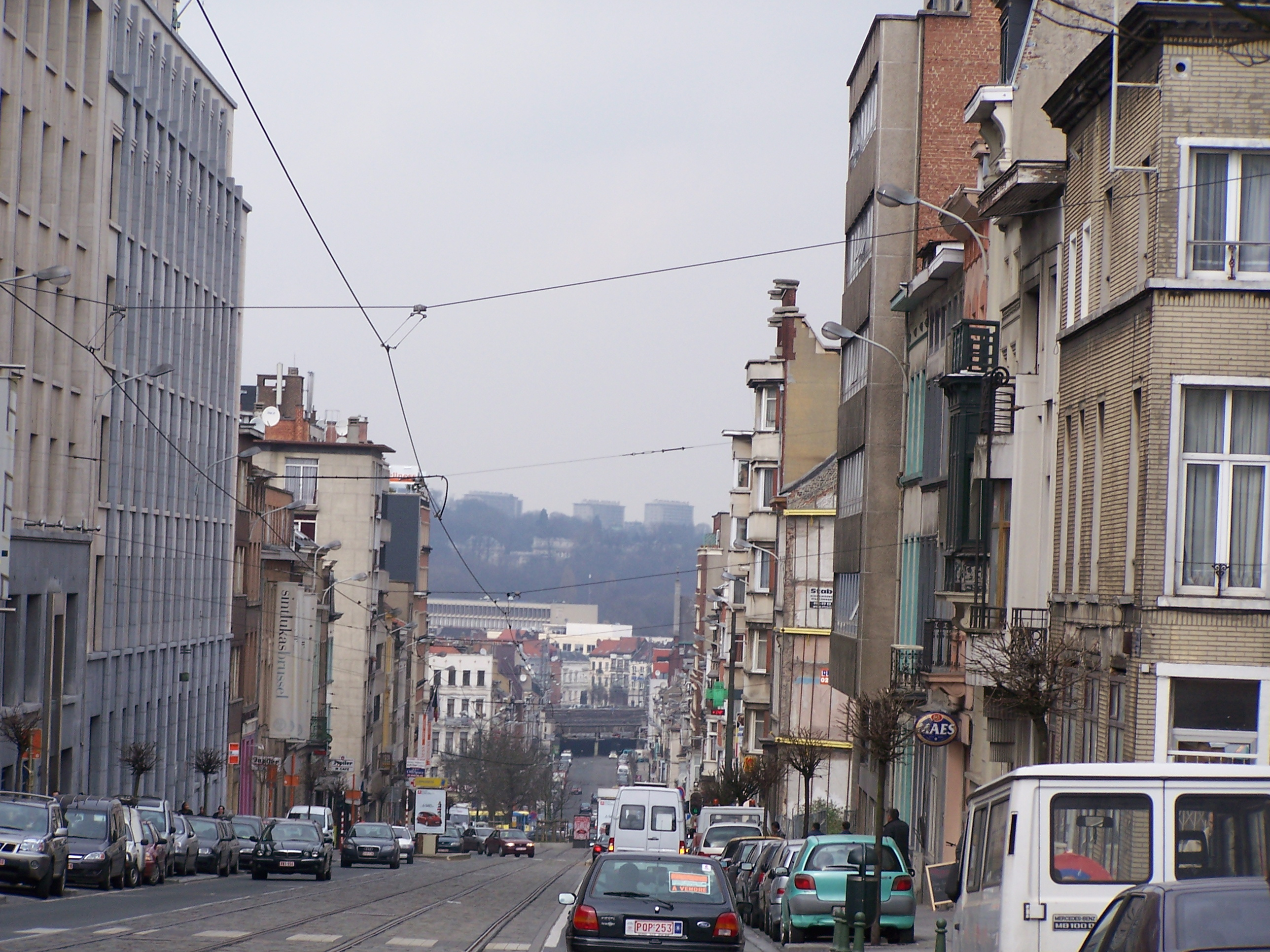 Streets in Schaarbeek